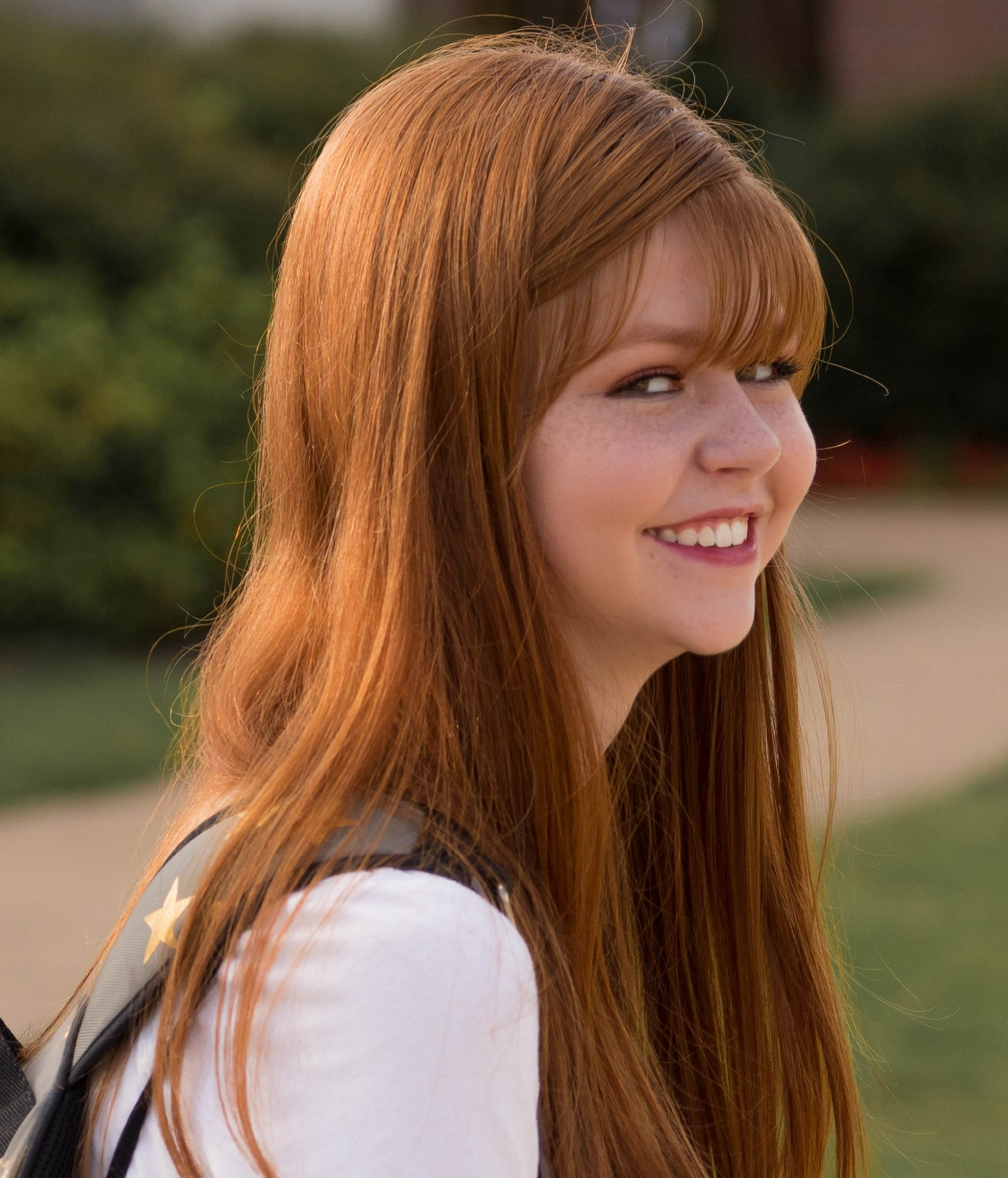 a ginger girl